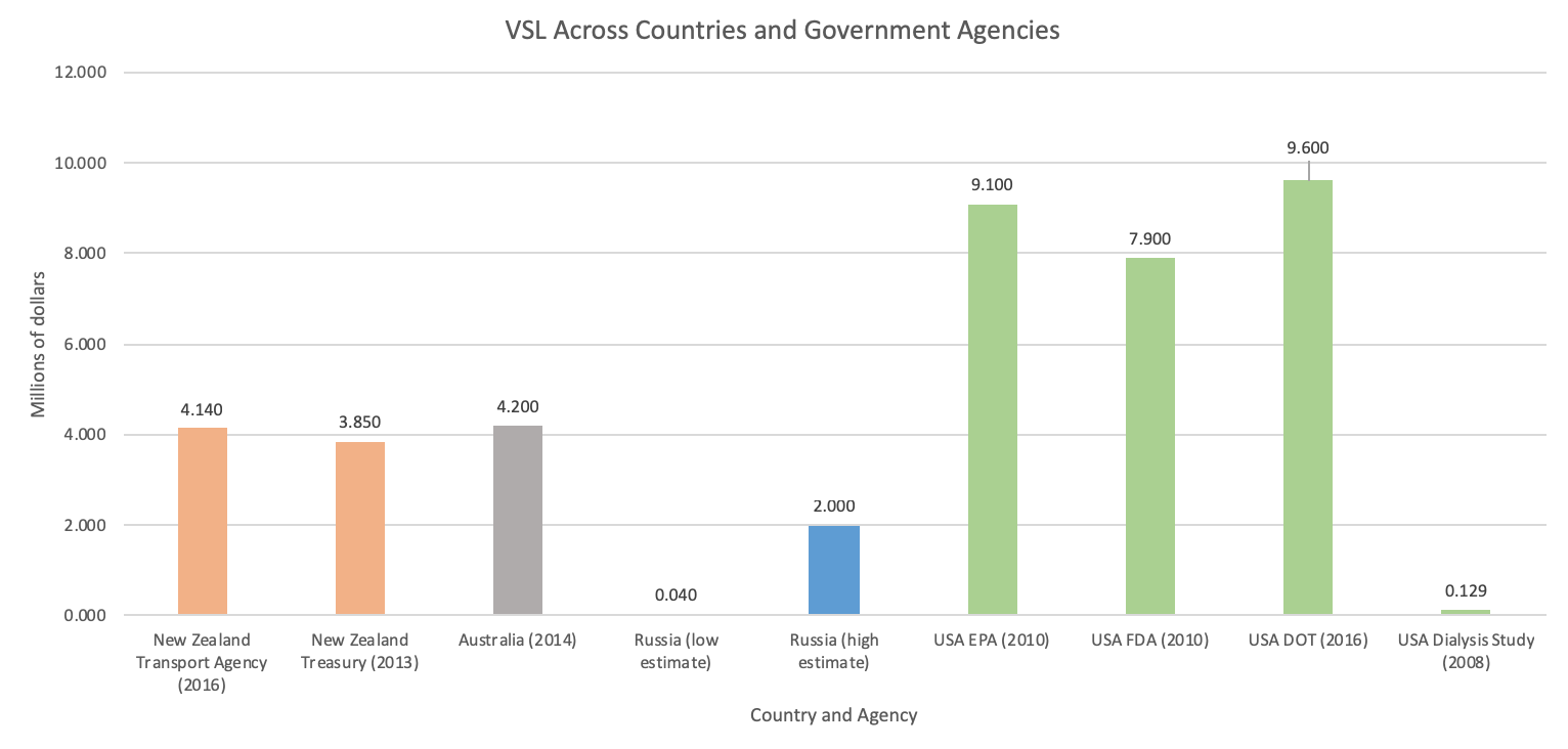 This graph is a more recent version of a previous one uploaded and includes axes labels and data values. The countries are organized by colors. Note that the dollar amounts do not have a base year and are not indexed for inflation. Also keep in mind different countries use different currencies to express the amounts.